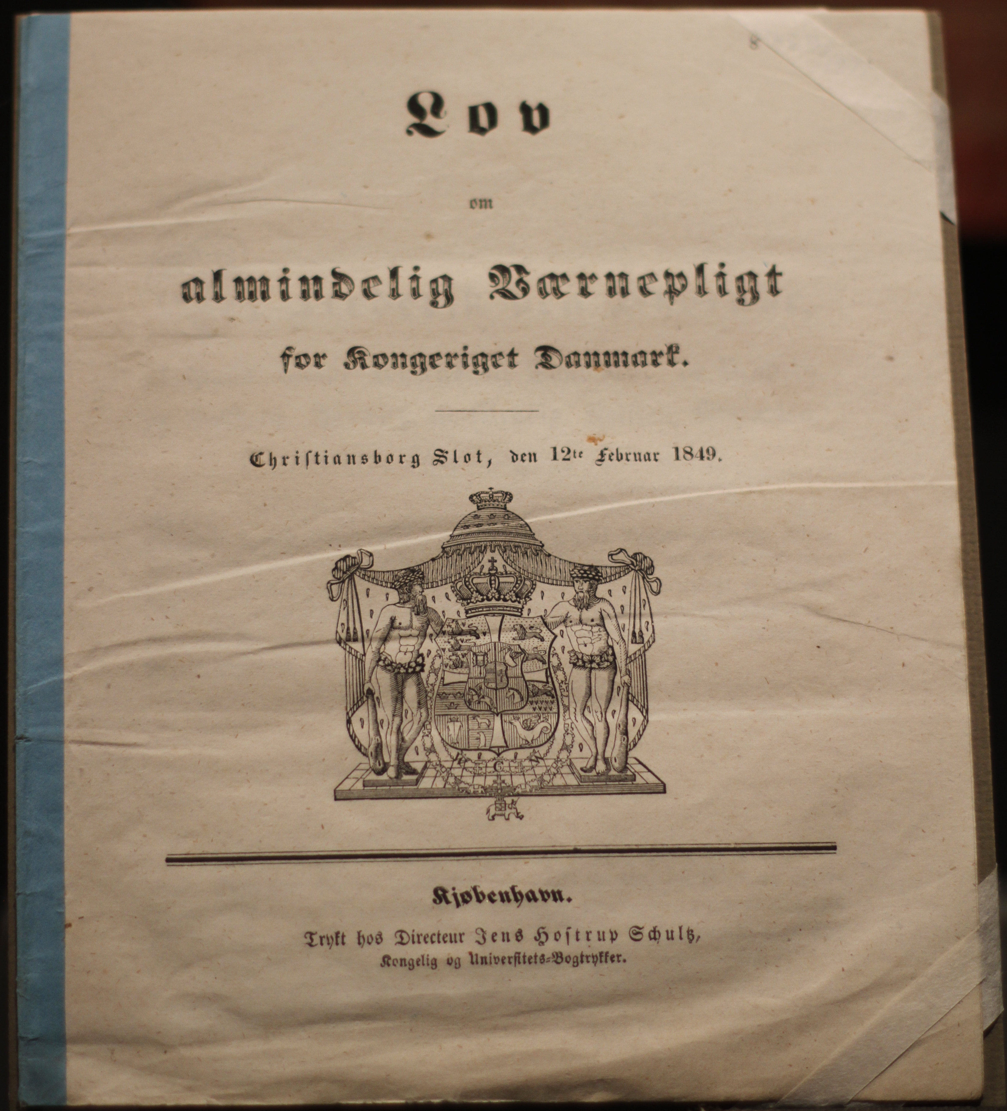 Conscription Law for the Kingdom of Denmark, from 1849, at the National Museum of Denmark.